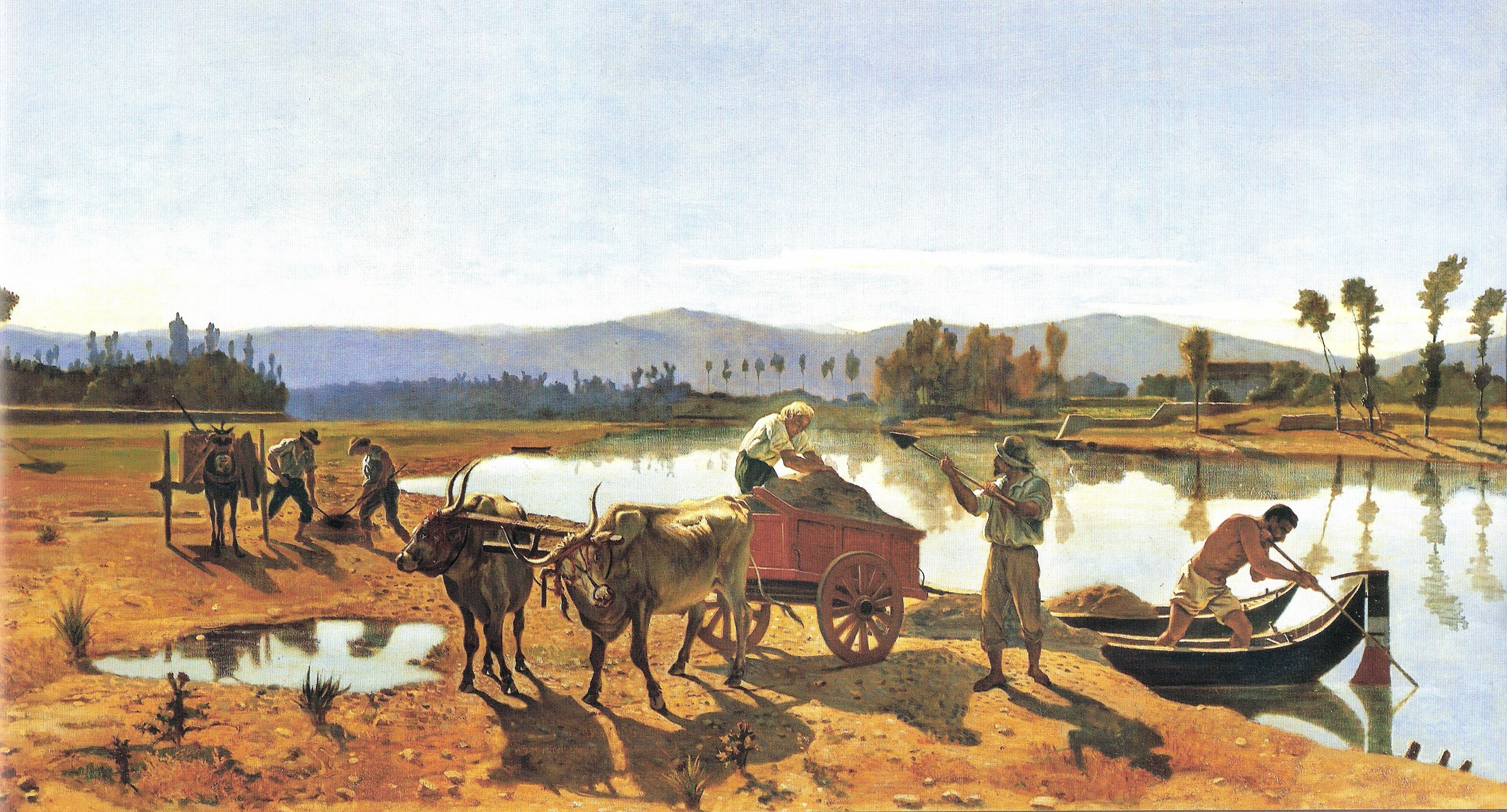 The Arno sands collectors